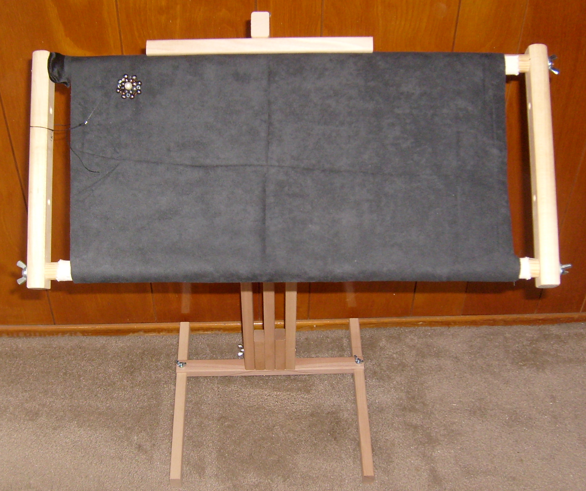 Bead embroidery during construction: a brooch design in freshwater pearls and lead crystal on ultrasuede, with scroll frame.